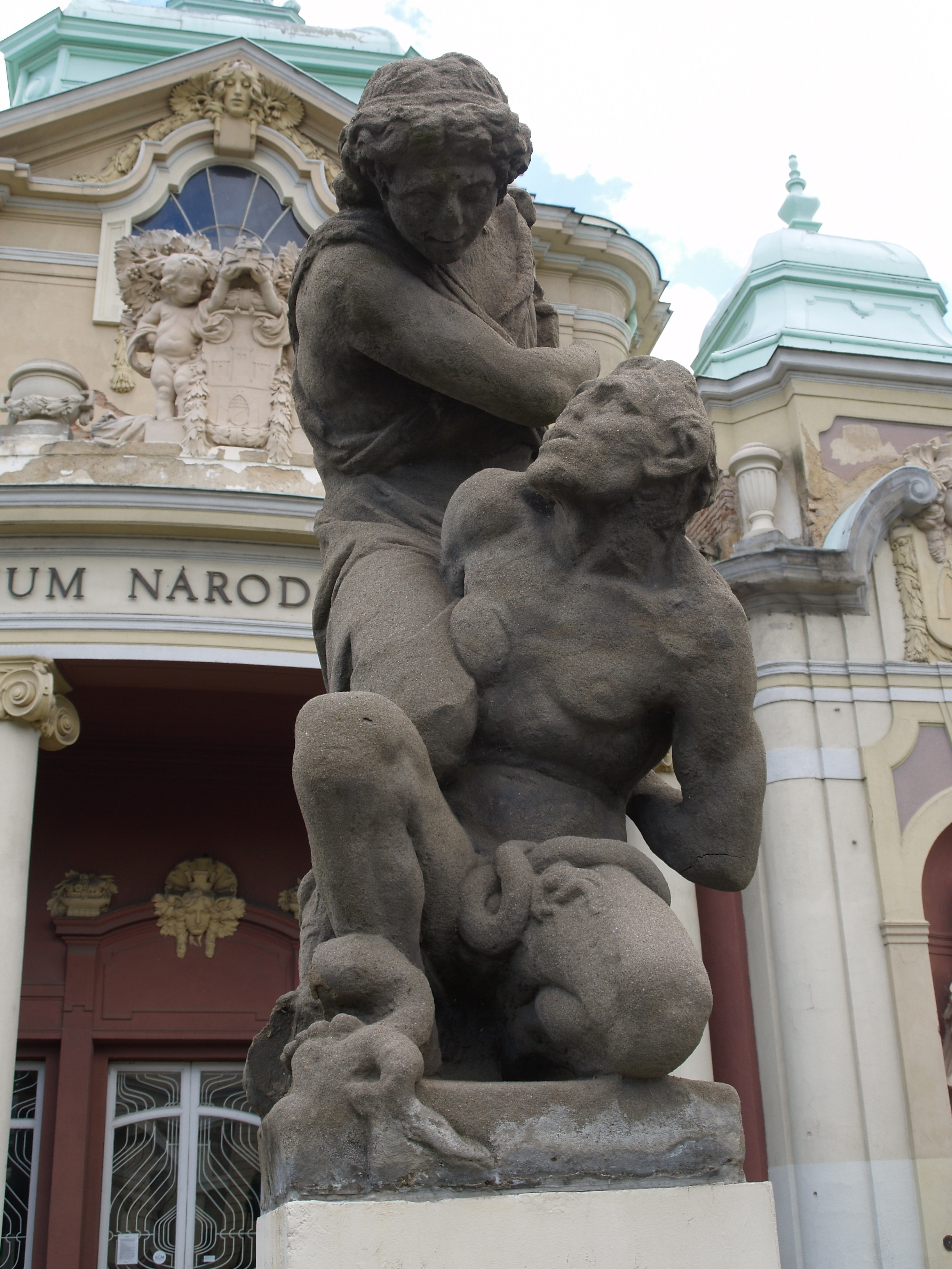 Sculpture Angel with the Devil (1650) by German-Czech sculptor Johann-Georg Bendl; originally part of the Maria column on the Old Town Square (Prague) (taken down in 1918), now belonging to the Lapidarium, Prague; material artificial stone